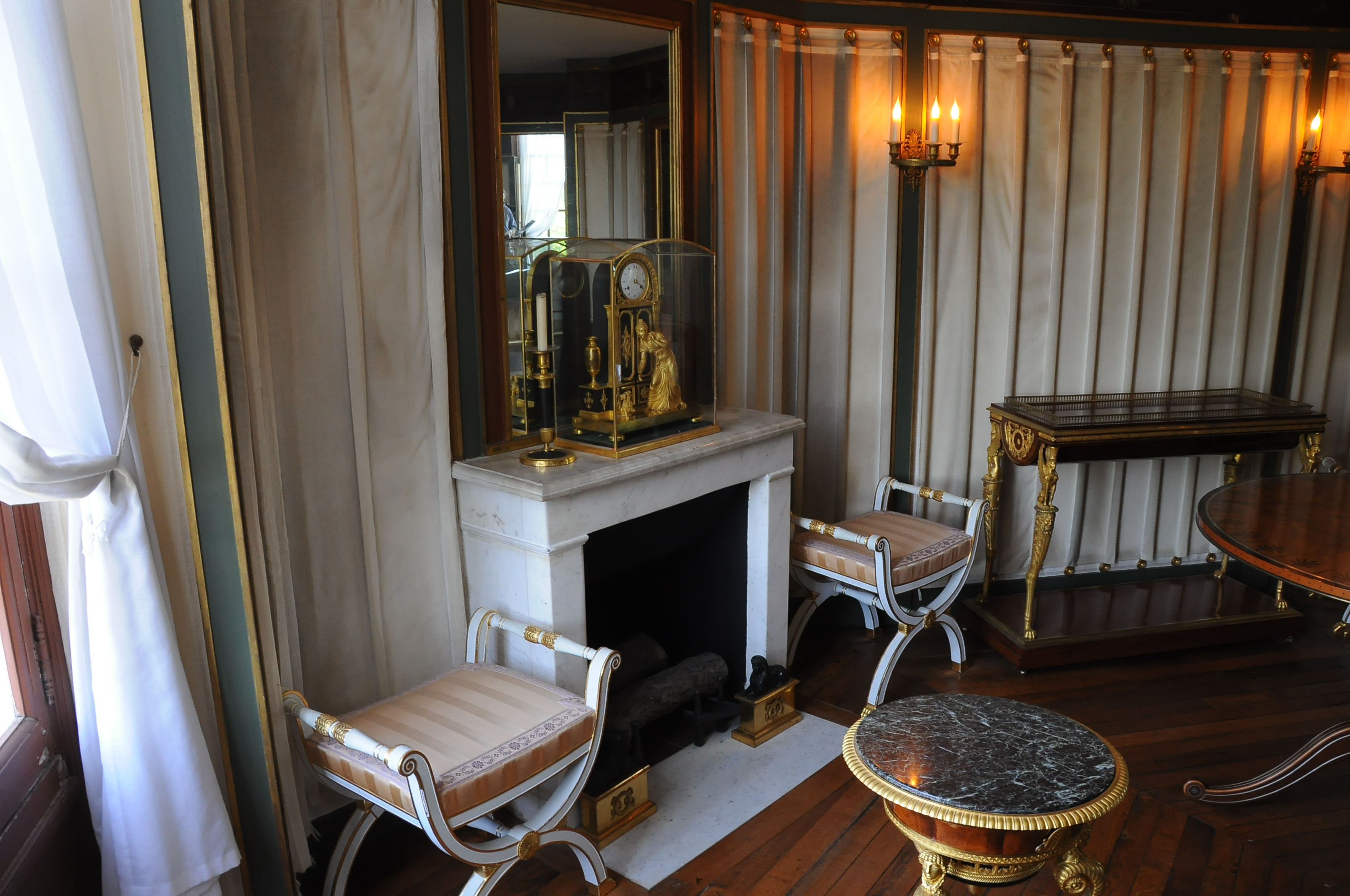 Boudoir (and not the bathroom) in the apartment of empress Joséphine in the Château de Malmaison at Rueil-Malmaison, France. Installed in 1800 in the north part of the Château, this apartment which the consular couple shared during several years stayed in the Joséphine's exclusive usage after 1803.